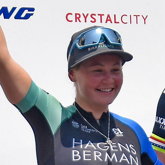 Women's Pro race at the 2019 Armed Forces Cycling Classic in Clarendon (Arlington) VA Sunday June 2, 2019.Winner was Kendall Ryan of Team TIBCO-Silicon Valley Bank. 2nd Natalie Redmond (Fearless Femme Racing p-b Altam) 3rd Harriet Owen (Hagens Berman) DSC_7744